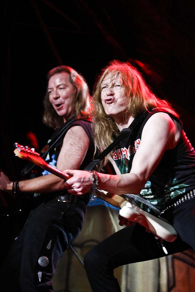 Dave Murray and Janick Gers 2008